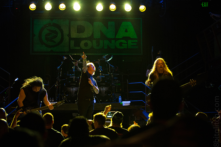 Fear Factory performing at the DNA Lounge in 2013